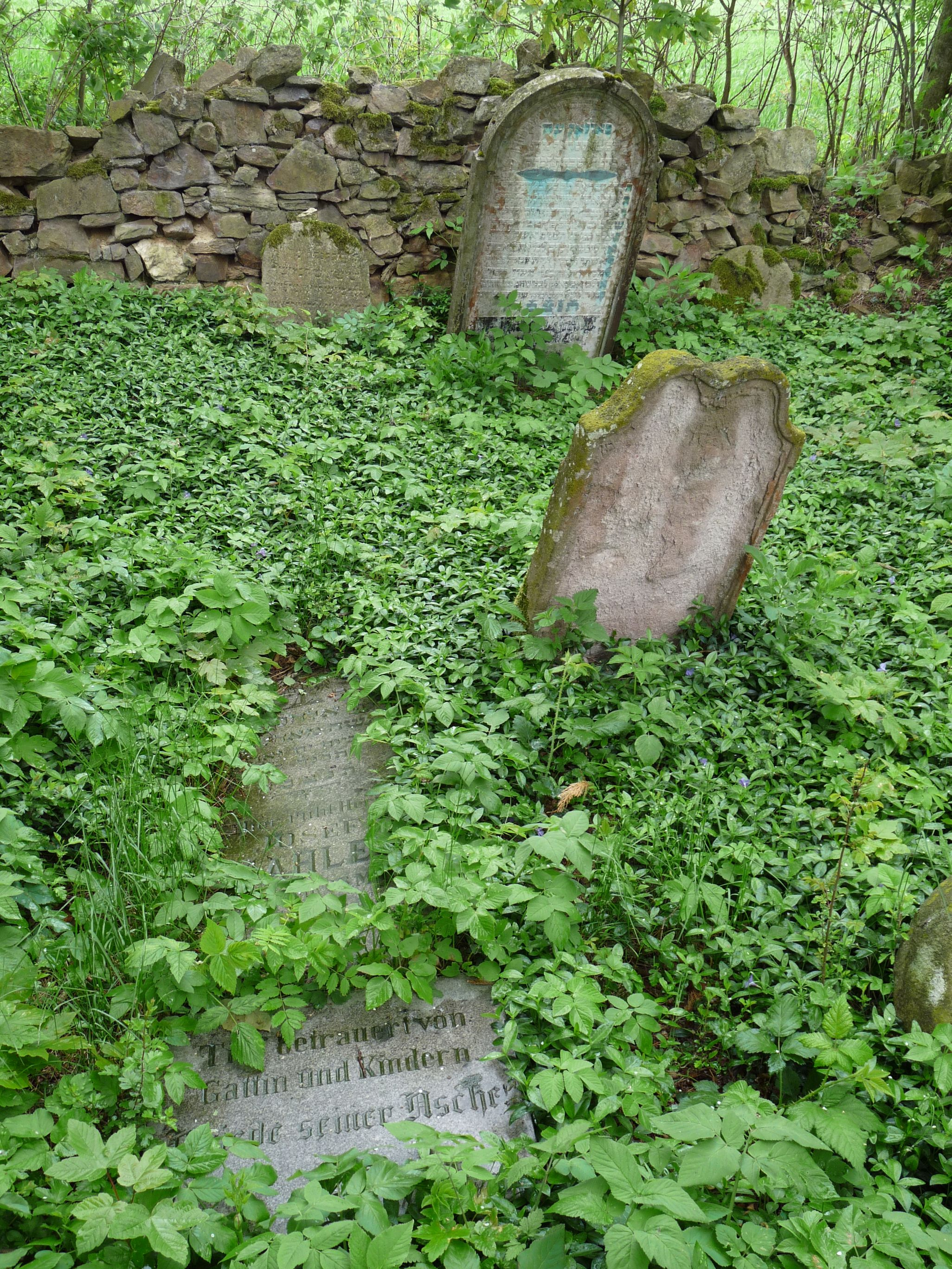 Gravestones in the Jewish cemetery in the municipality of Pravonín, Benešov District, Central Bohemian Region, Czech Republic.